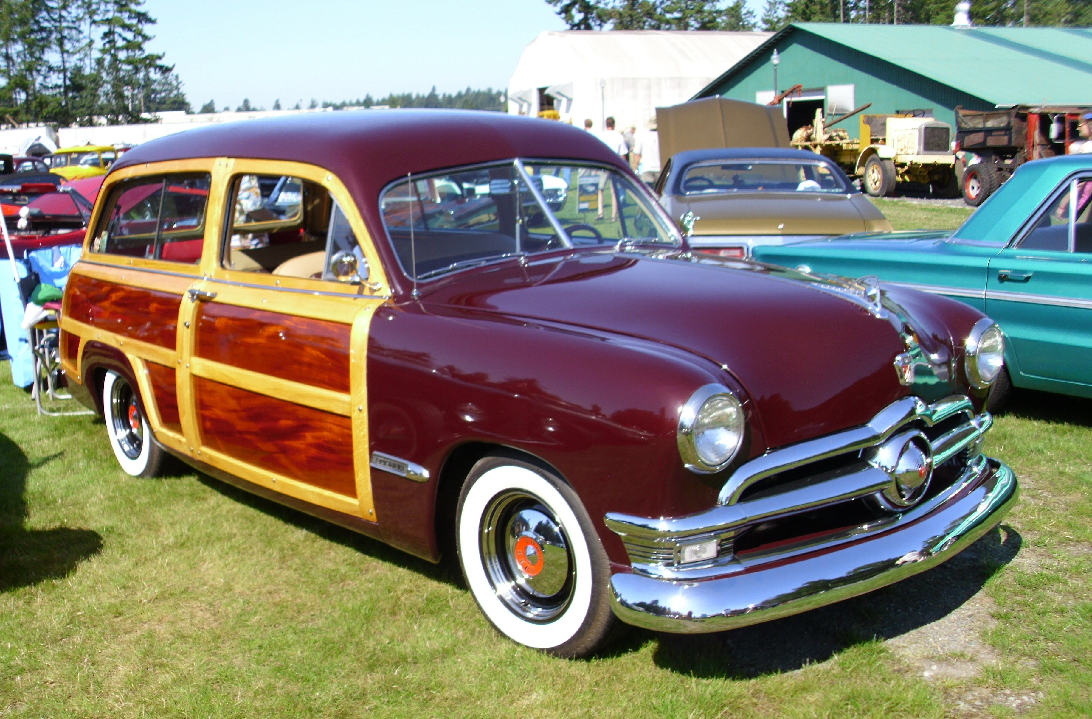 Seen in the car show held along side the LeMay Open House.